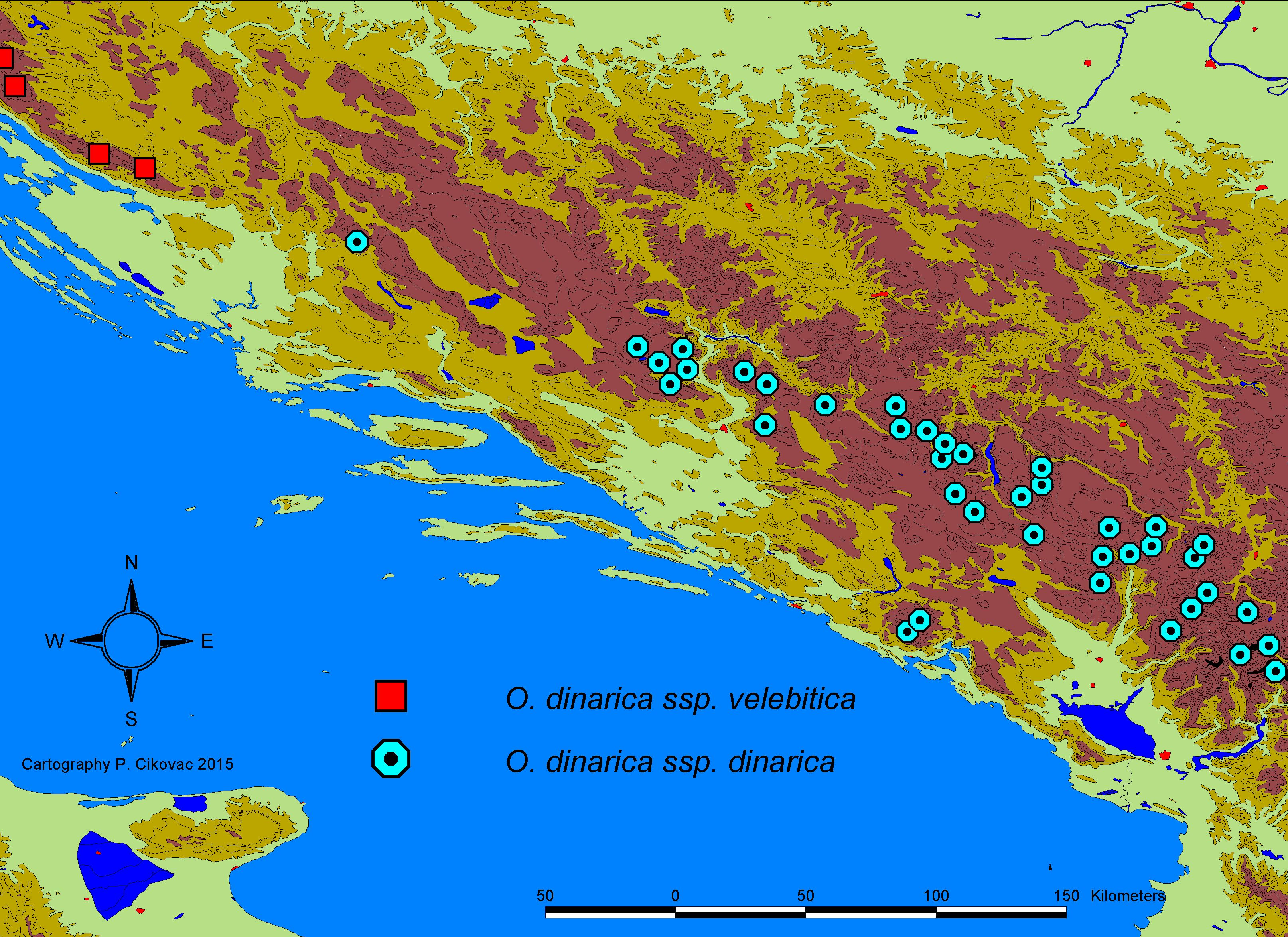 Distributional map Oxytropis dinarica (Murb.) Wettst. after Chrtek & Chrtkova